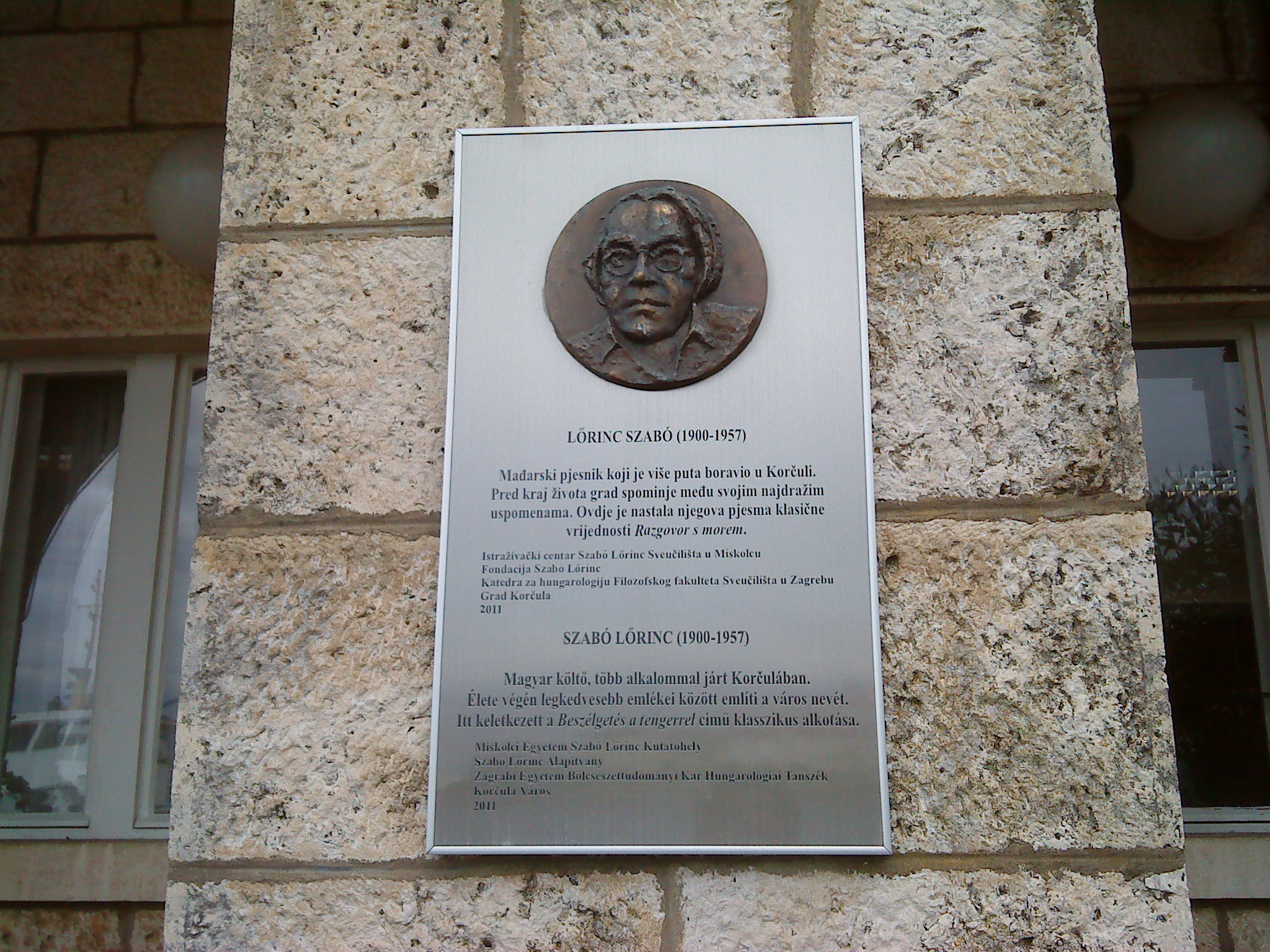 Memorial plaque for a Hungarian poet Lőrinc Szabó in Korčula